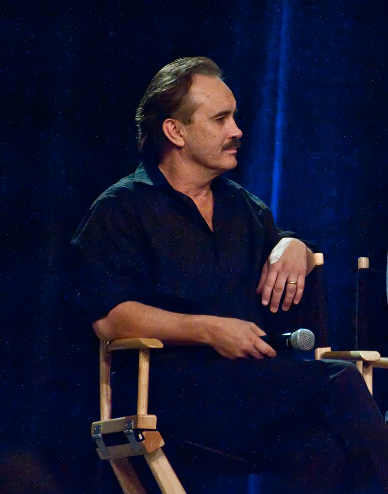 Jeffrey Combs at the Star Trek Convention, Las Vegas